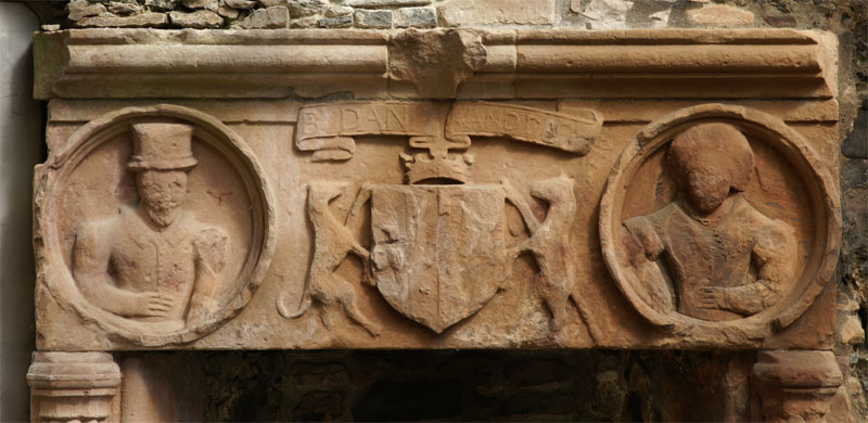 Huntly Castle (Aberdeenshire, Scotland) - detail fireplace in great chamber of marchioness